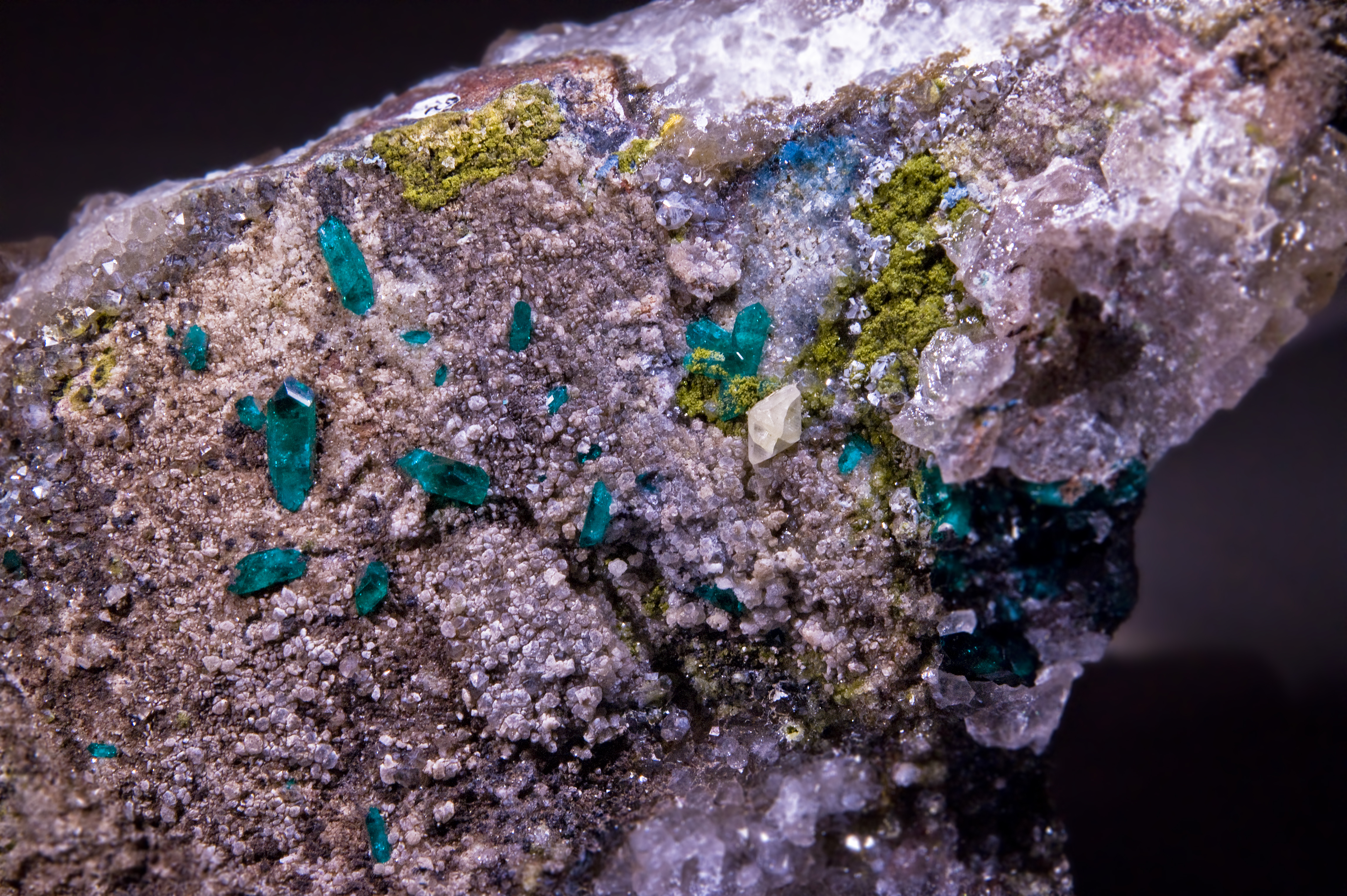 Dioptase Cerussite Fornacite - Renéville; Djoué, Brazzaville Region (Renéville Region), Republic of Congo (Brazzaville) (8x7cm)